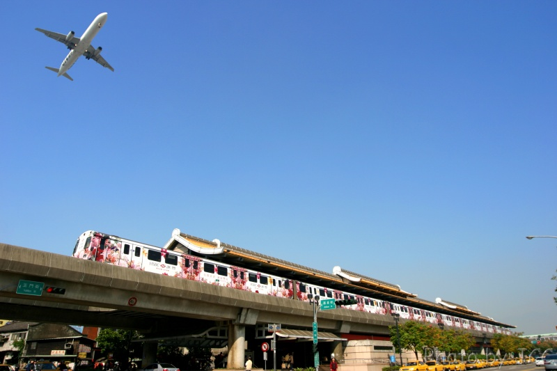 Taipei MRT Yuanshan Station and Taipei MRT EMU with HSBC Bank advertisement.